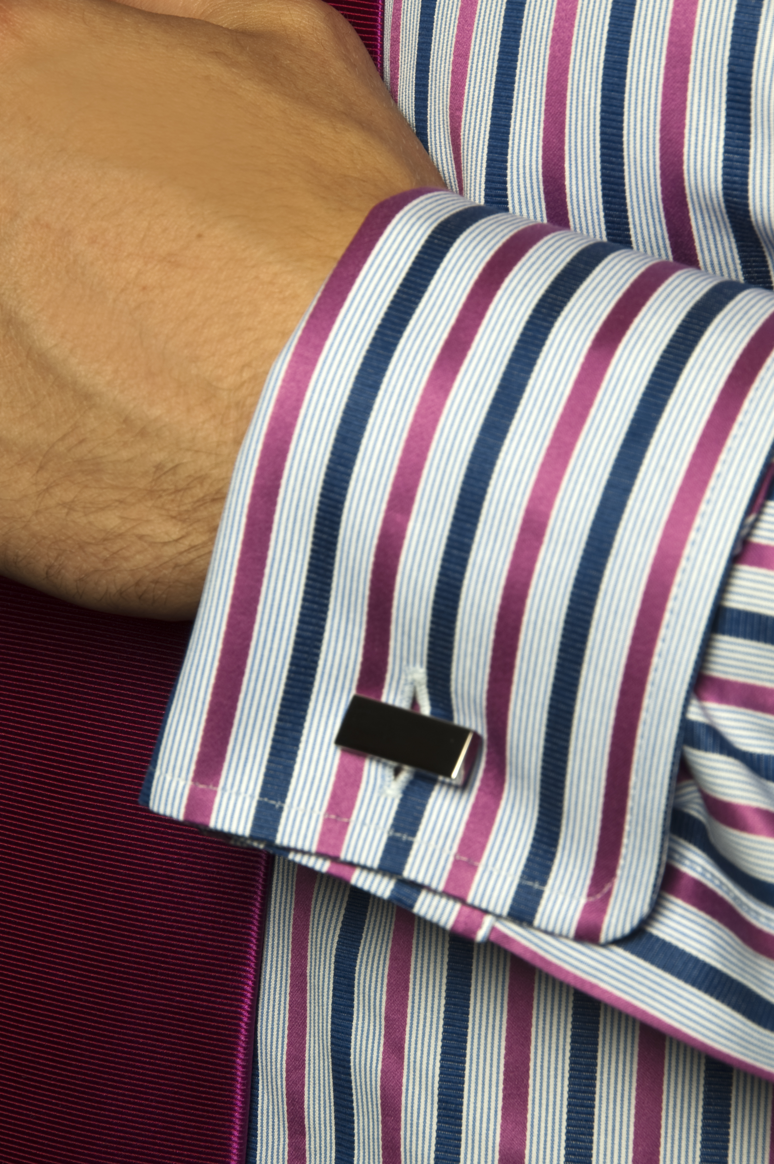 Double-Cuff by Hawes & Curtis